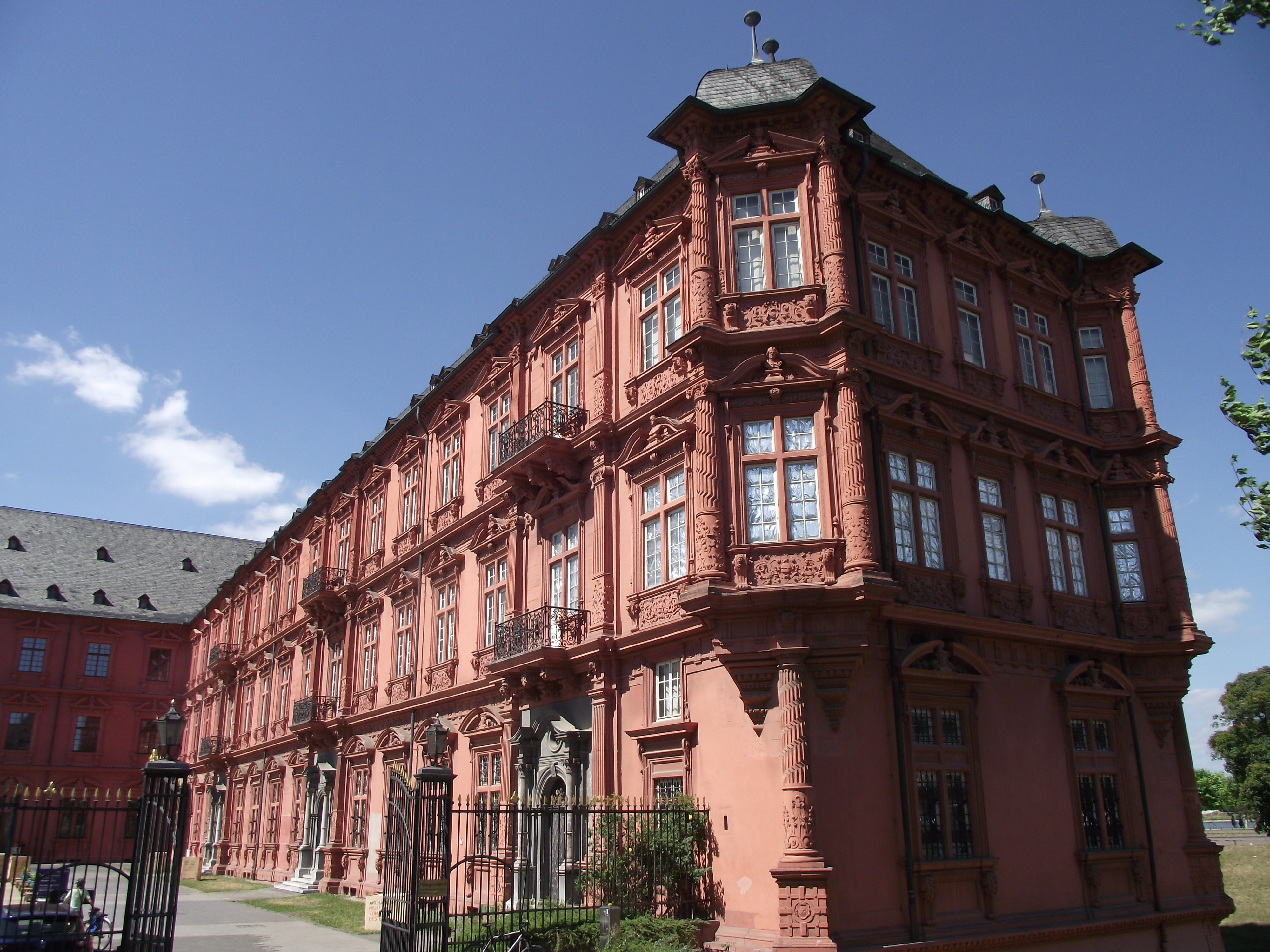 Mainz, Electoral Palace, 1627-1752